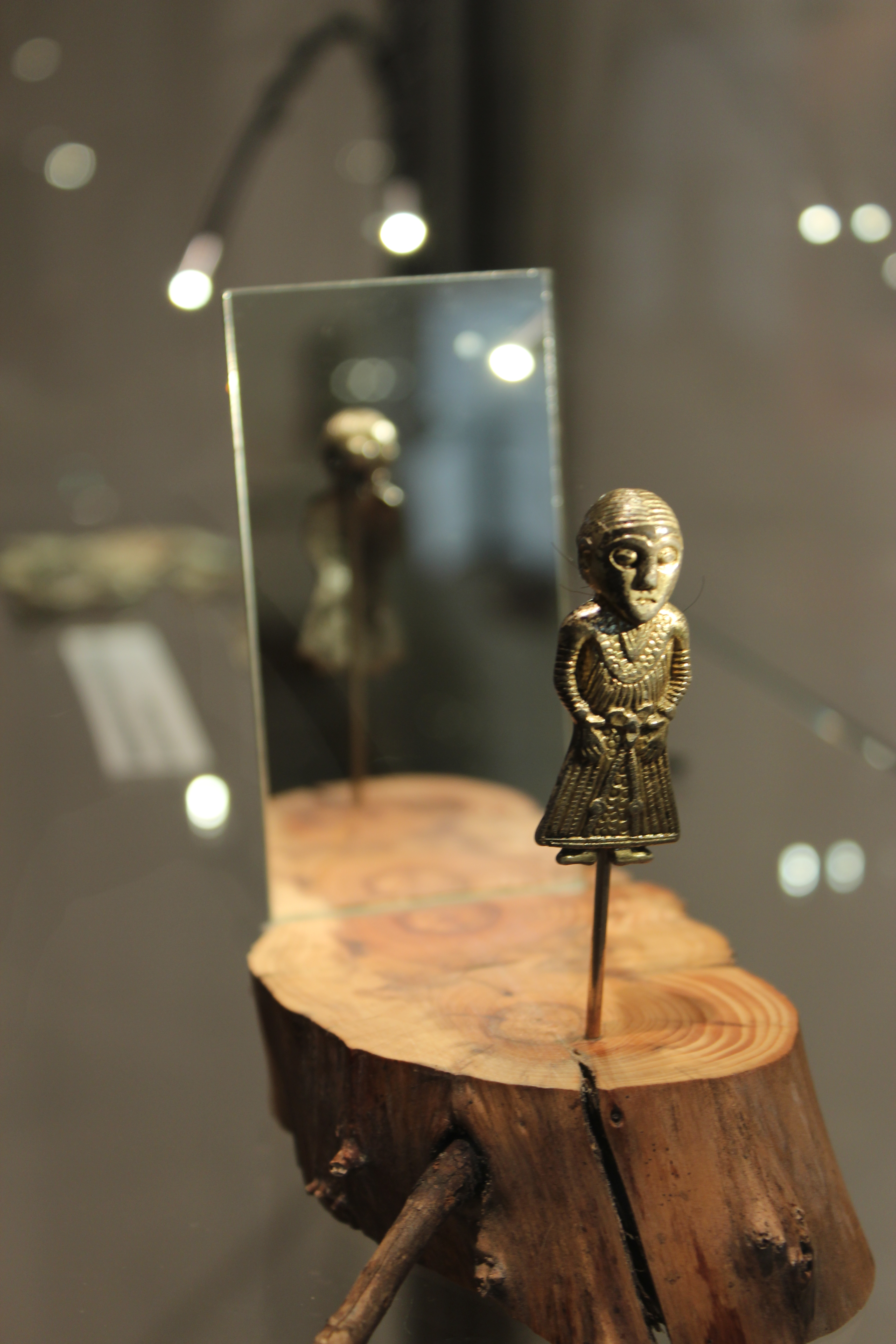 Revninge-woman. Found in april 2014. Made of silver and dated to around year 800. At exhibition at Vikingmuseum Ladby